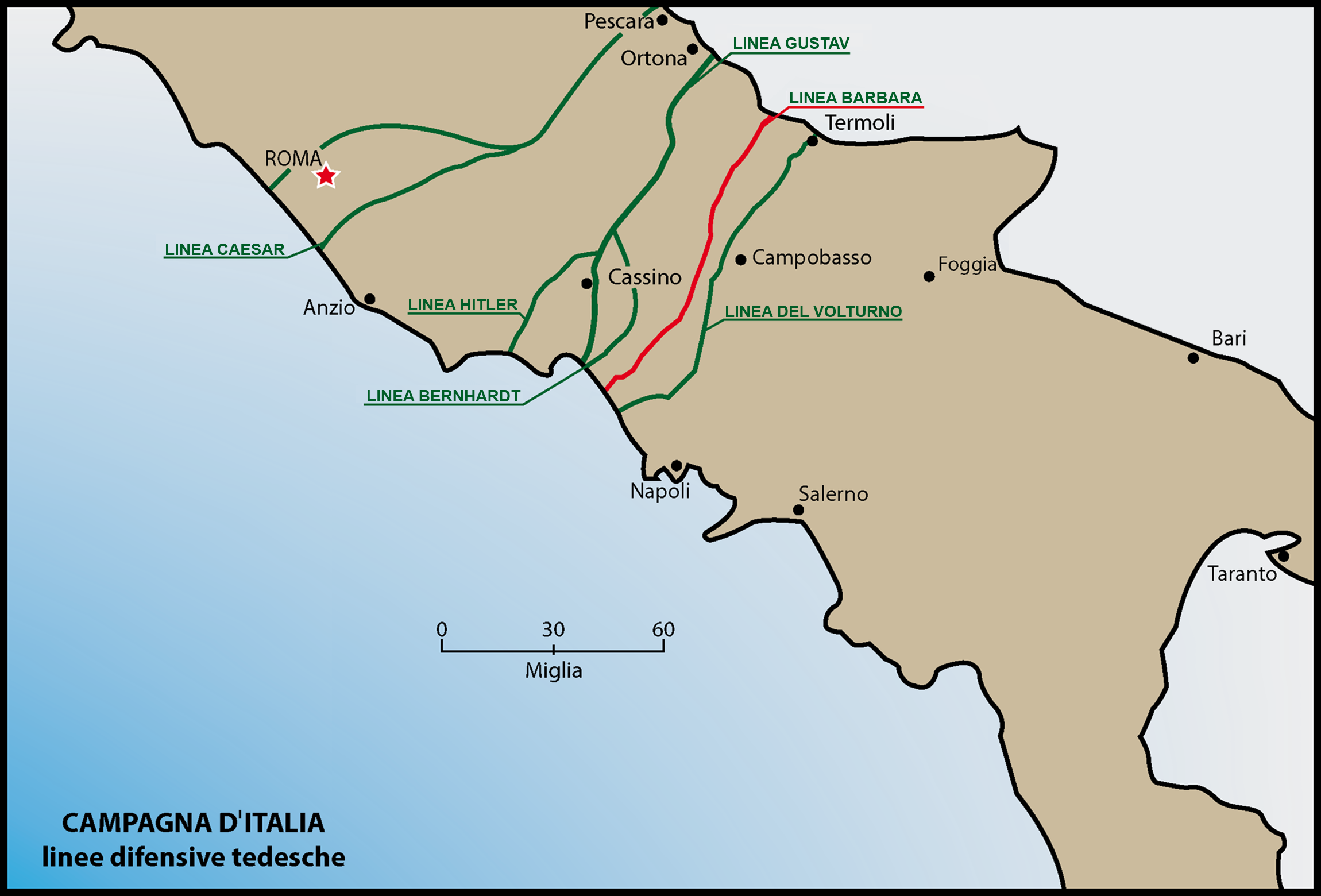 A map showing the German defensive line in central Italy during World War II. Barbarian line in red.